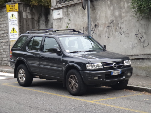 Was strange seeing these wearing Opel badges as I've only ever seen these with Holden ones and this was different again, by not having the spare wheel attached to the rear tailgate.